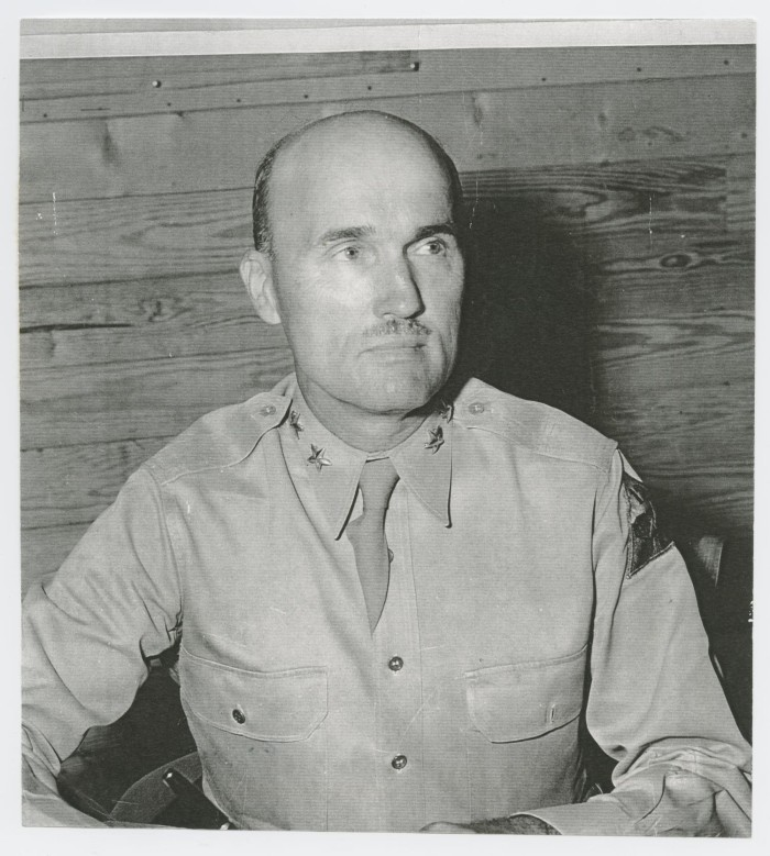 Maj. Gen. Carlos Brewer (c. 1943 -1944), United States Army